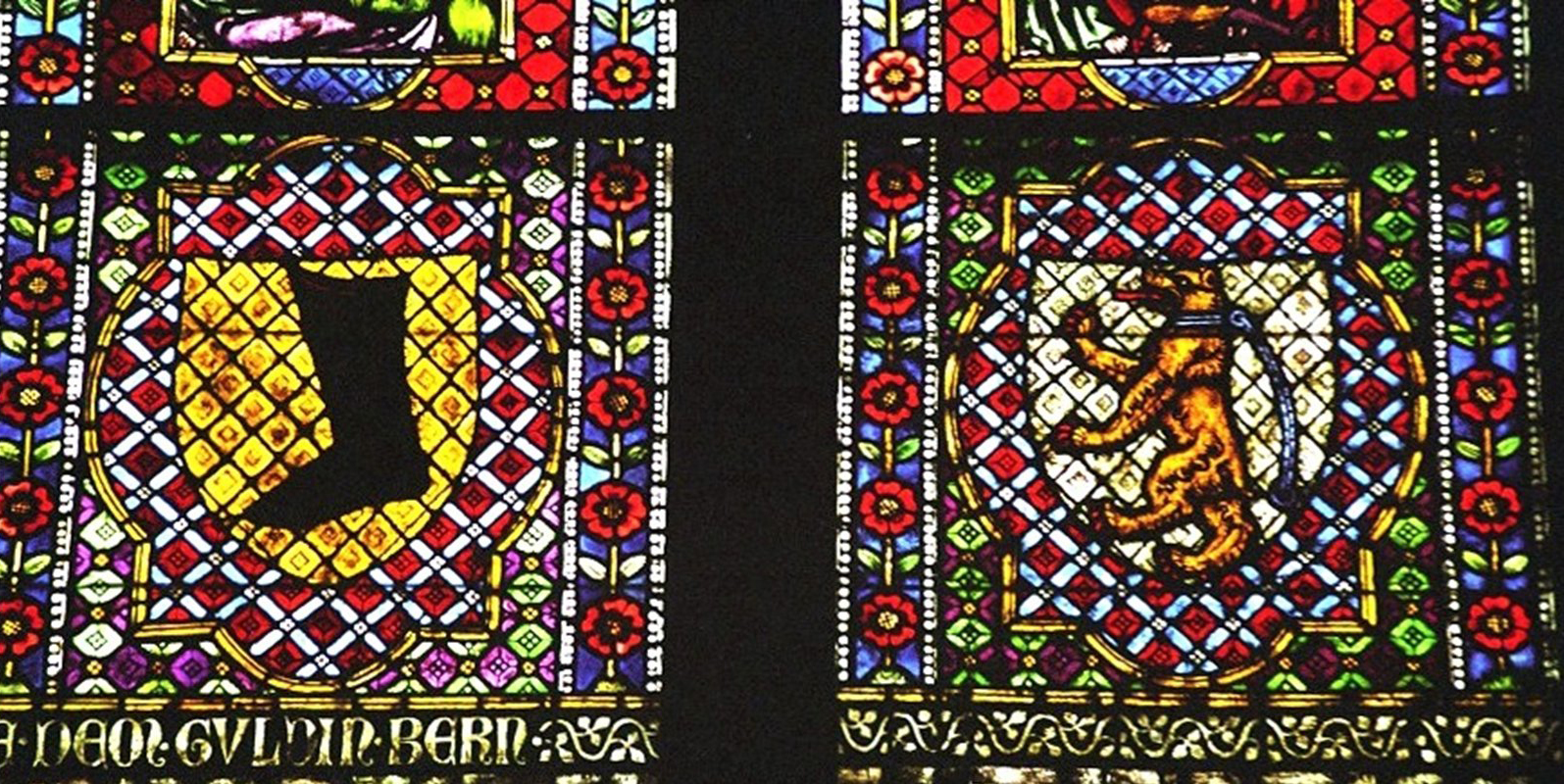 Detail from the stained glass window of the cobblers guild in the Freiburg Minster, showing a boot (symbol of the cobblers' craft) and a "Golden Bear" (the name of the inn where the guild held its meetings). The "Golden Bear" may be identical with the inn Zum roten Bären, since the word "rot" (red) was used to describe gold in the Middle Ages. According to Grimms Wörterbuch, "gold, kupfer, edelsteine und andere mineralien werden häufig rot genannt. rotes gold ist in der dichterischen sprache eine äuszerst beliebte wendung" (